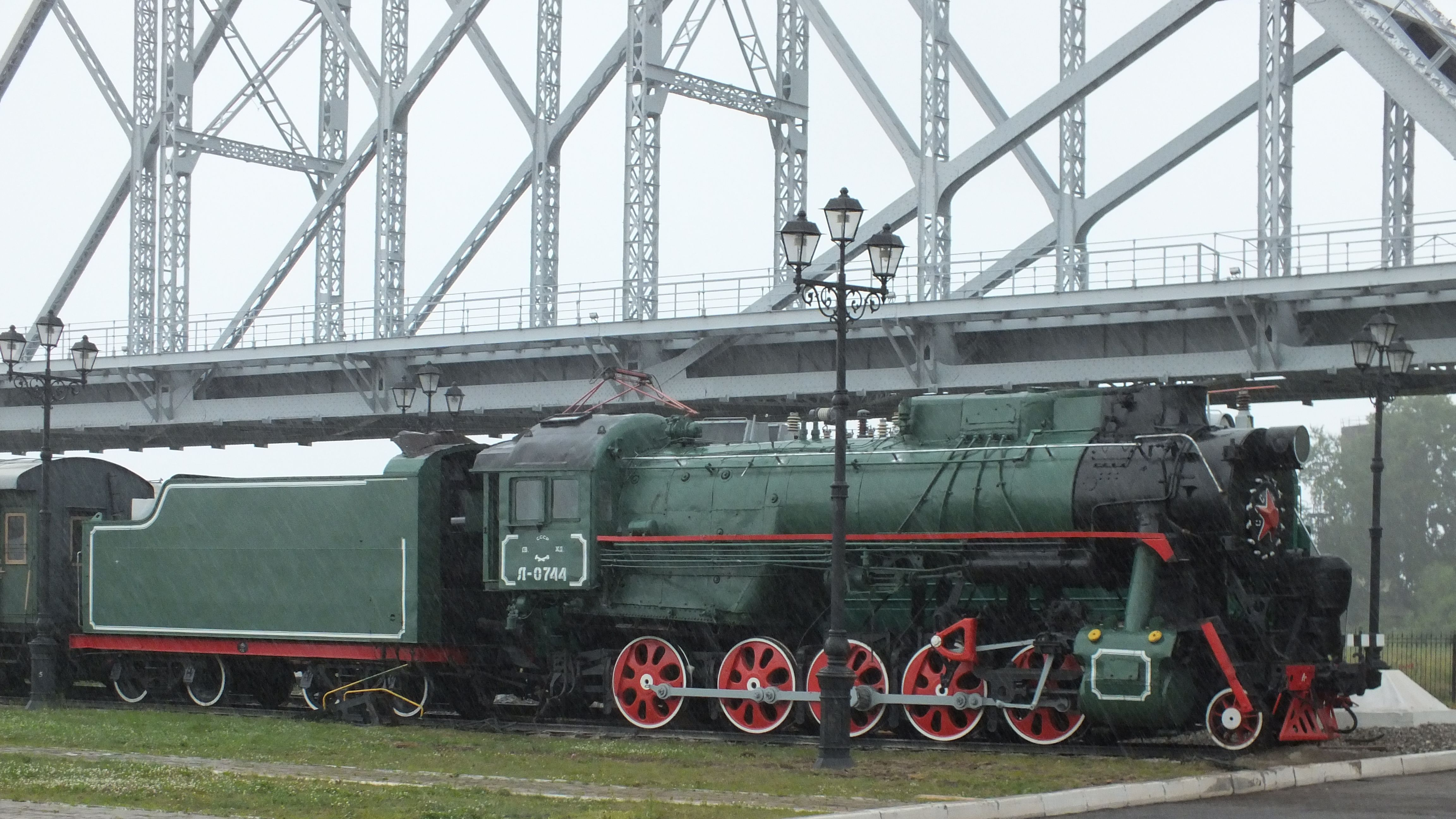 Soviet locomotive class Л